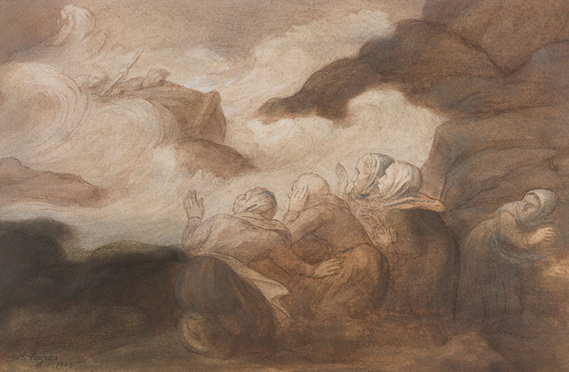 La Barque en peril (The boat in peril). Ink and watercolour. Signed and dated, 1903. Ex. Coll: John Abbott. 10.5x16 inches. Framed: 18.25x23.5 inches.